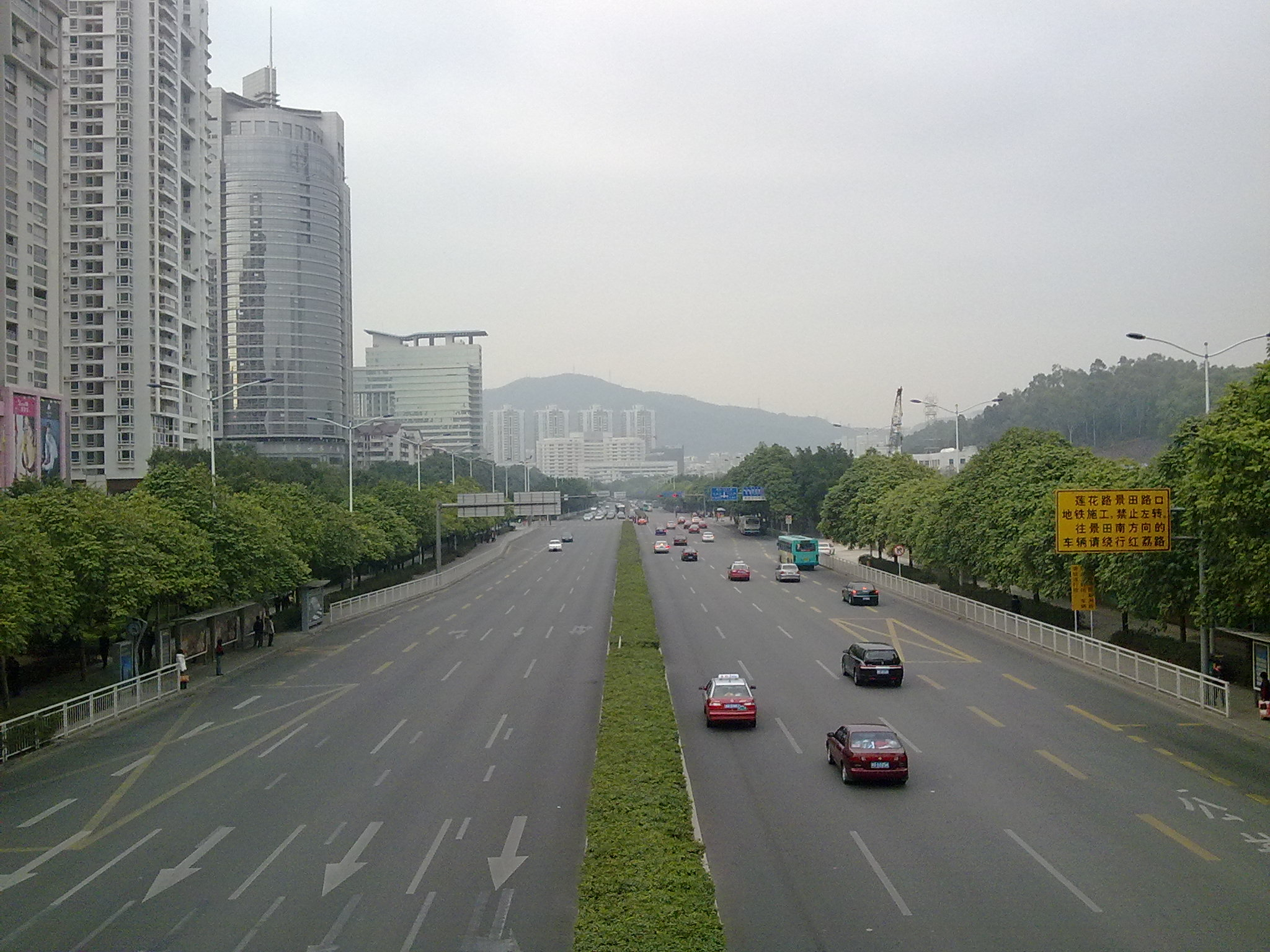 Xin Zhou Rd